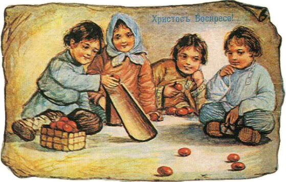 A Russian Empire postcard.